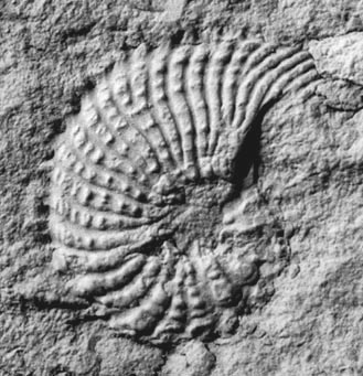 Fossil of the ammonite species Trachyceras (Brotheotrachyceras) brotheus, probably from the Raible Formation of Val Badia, Dolomites, Northern Italy. This specimen is held in the paleontological museum of the Department of Geosciences, University of Padova, Italy.